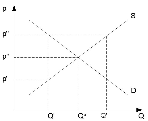 Supply and demand market curves